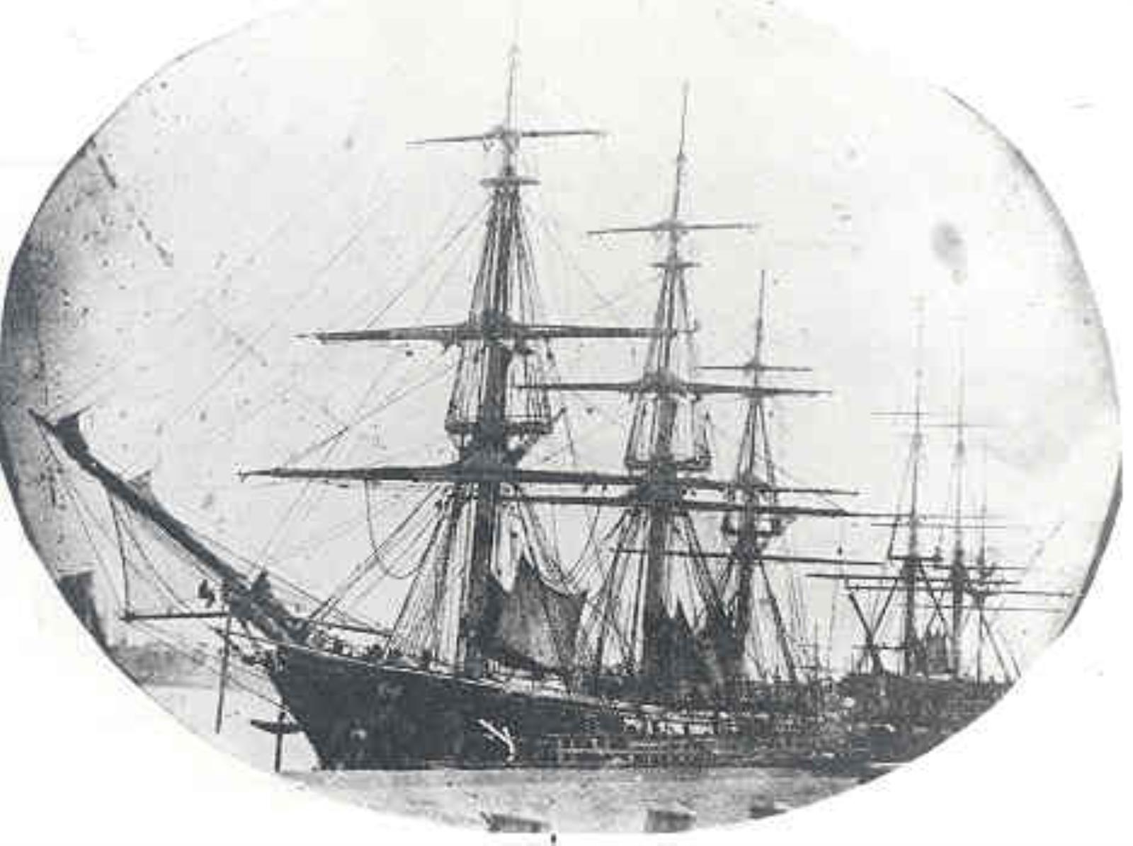 Schroefstoomschip 1e klasse Zr.Ms. Djambi (1860-1874). Source Dutch Ministry of Defense